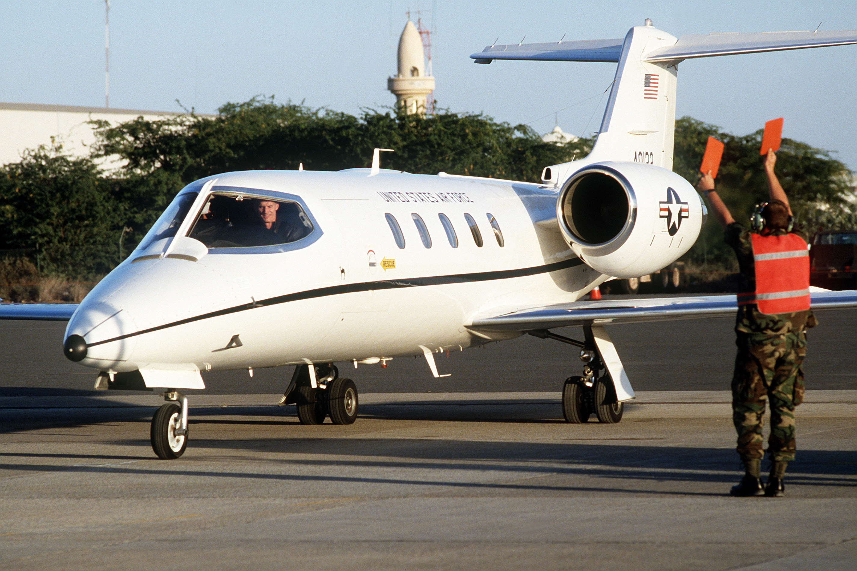 Air Force Chief of Staff General Merrill McPeak flying a U.S. Air Force Learjet C-21A, during a visit to Saudi Arabia to inspect U.S. Air Force personnel deployed to Middle East during Operation Desert Shield.